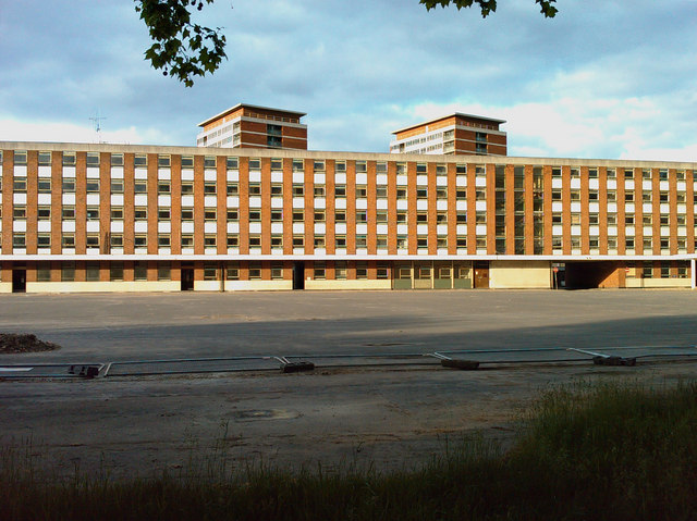 Chelsea Barracks Soon to be demolished.